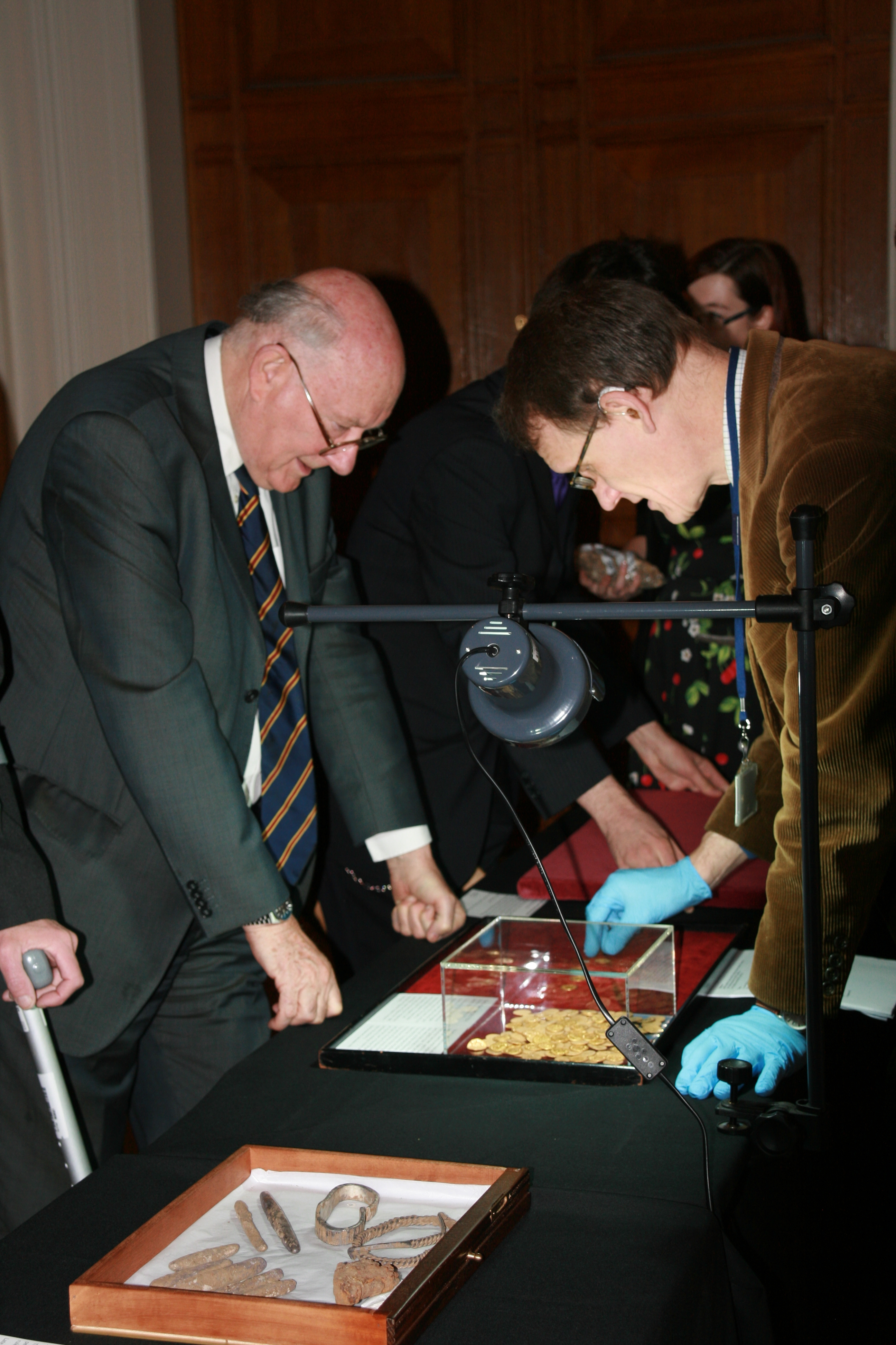 Colin Renfrew, Baron Renfrew of Kaimsthorn looking at gold coins